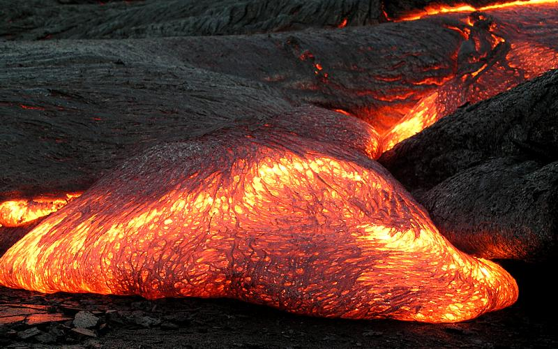 Advancing Pahoehoe toe, Kilauea Hawaii 2003 "Kohola breakouts and Highcastle ocean entry"